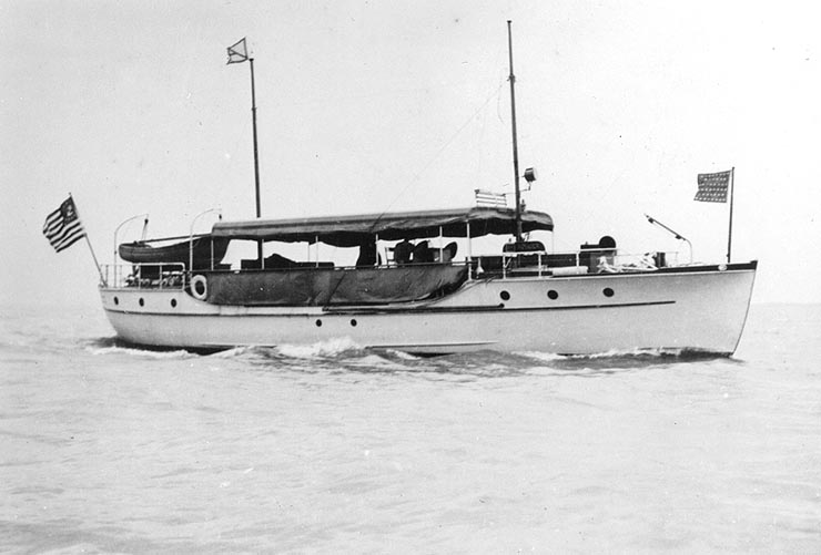 The motorboat Susanne, considered for United States Navy service in World War I as patrol vessel USS Susanne (SP-832) but never acquired by the Navy.